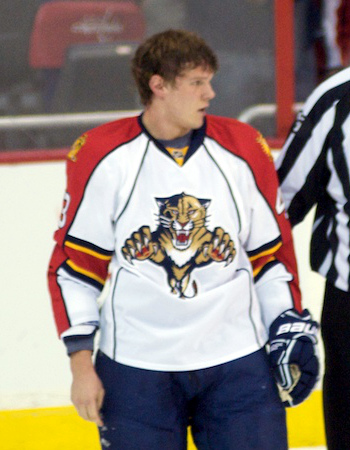 Dmitry Kulikov of the Florida Panthers being escorted by Shane Heyer during a game against the Washington Capitals.